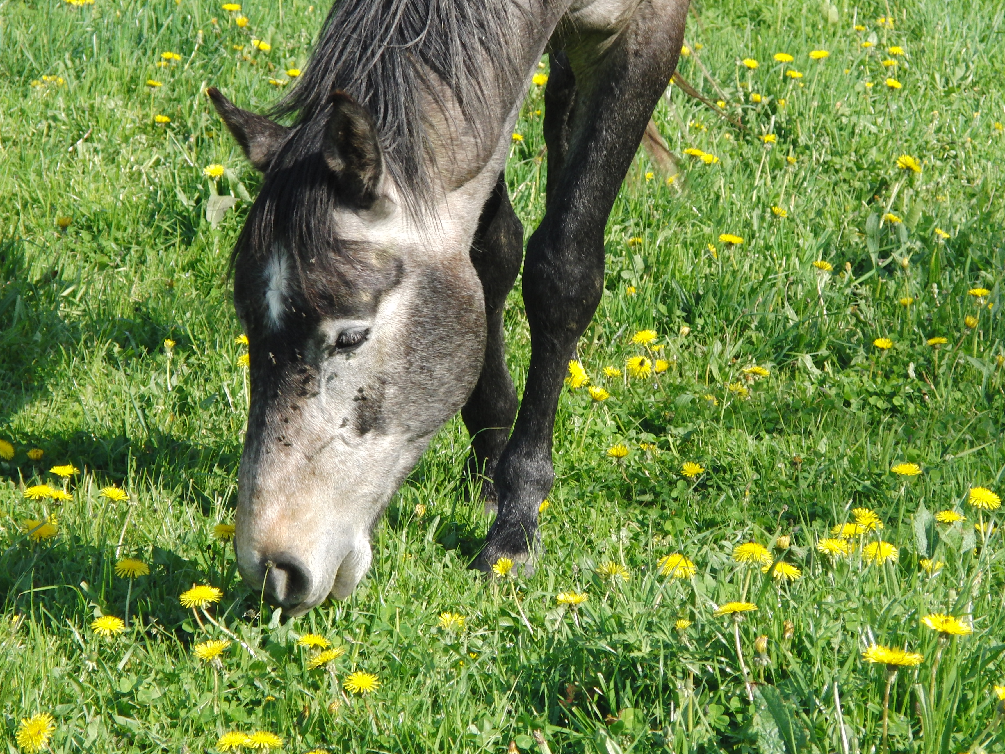 Three years old selle français horse (anglo-arabian sir and selle français dam), France